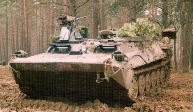 WPT Mors armored recovery vehicle of the 4th Armored Cavalry Brigade based in Orzysz.